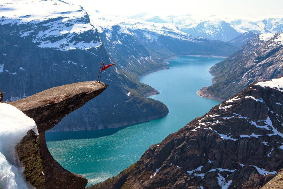 Trolltunga – Hordaland, Norveç